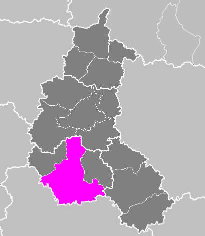 Maps of arrondissements and cantons of France: Arrondissement de Troyes.PNG